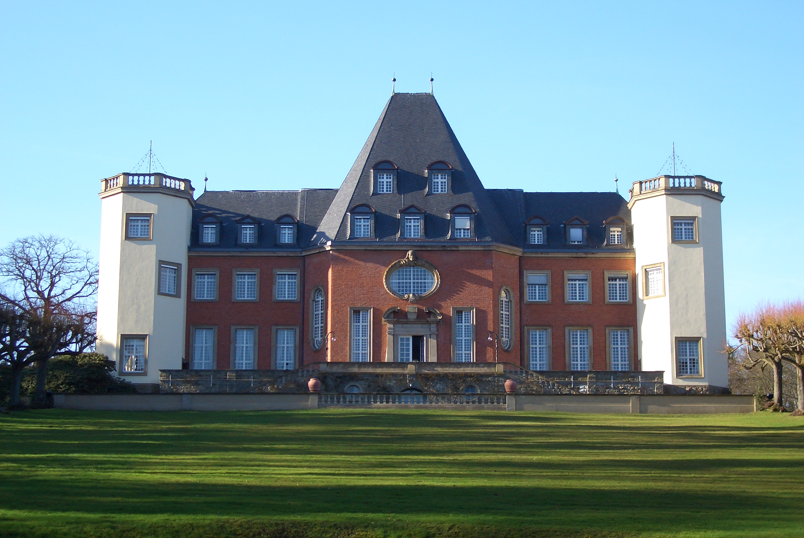 Southeastern side of Schloss Birlinghoven castle